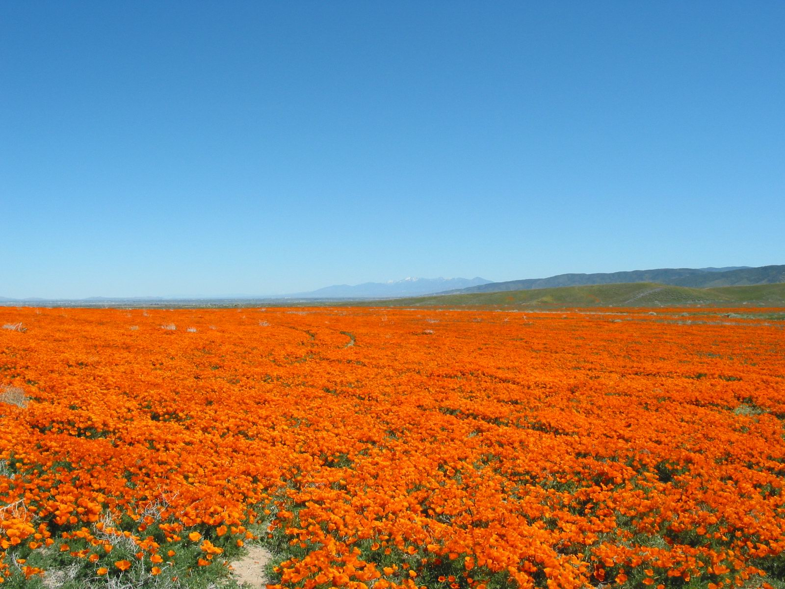 This is a picture of California Poppies in the Antelope Valley California Poppy Reserve. This picture was taken by me, Boris D